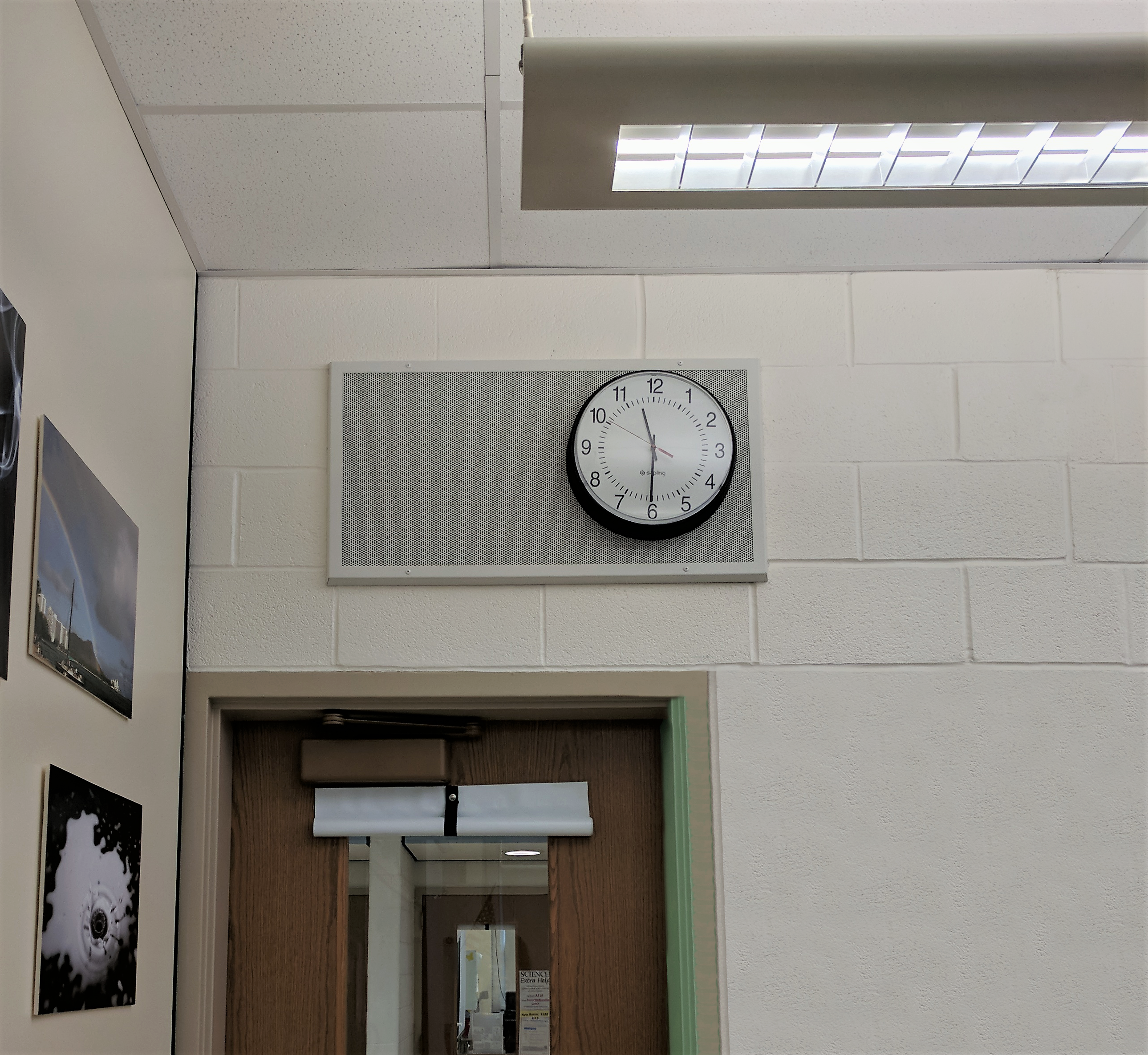 Picture of the combined speaker and clock in a US high school.